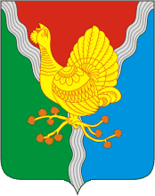 Sosnogorsk (Komia), coat of arms